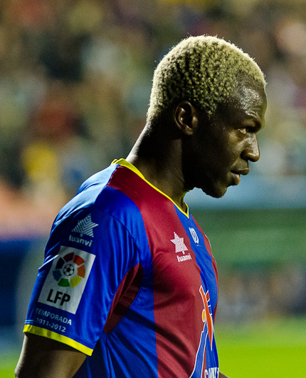 Ivorian player Arouna Koné during match of his team - Levante UD